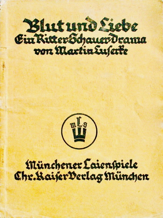 Book cover of the amateur play Blut und Liebe (= Blood and Love) by German author Martin Luserke (1880–1968), published by Christian Kaiser Verlag, Munich, Germany. Its initial release was in 1937. Its still one of the classics of German amateur play and is performed on many stages like in schools. Date 1937